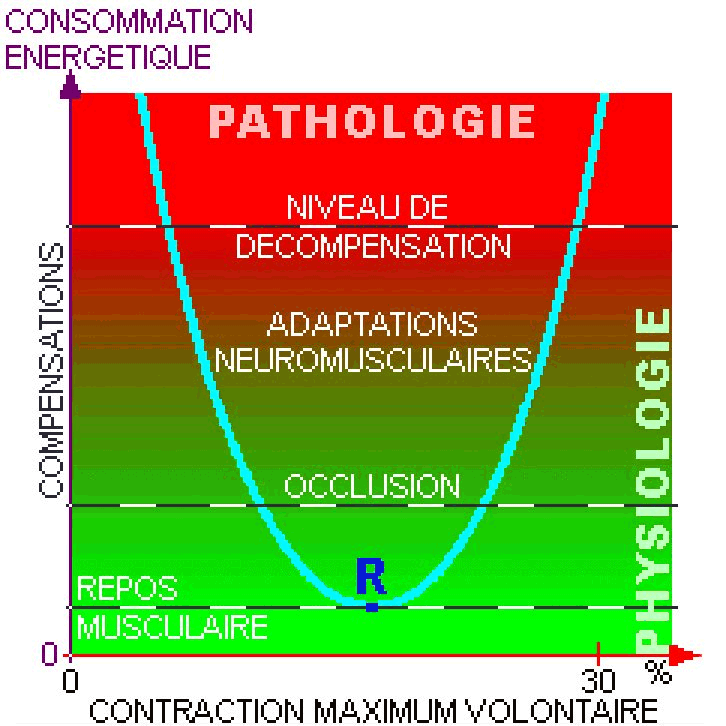 Muscles functions and cellular energy (ATP).